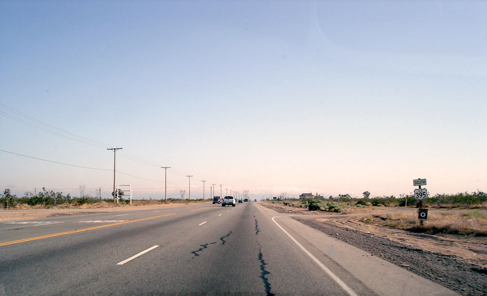 U.S. Highway 395 near Victorville, California Captioned As { }